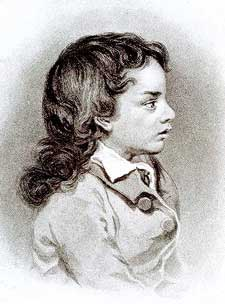 Thomas Chatterton